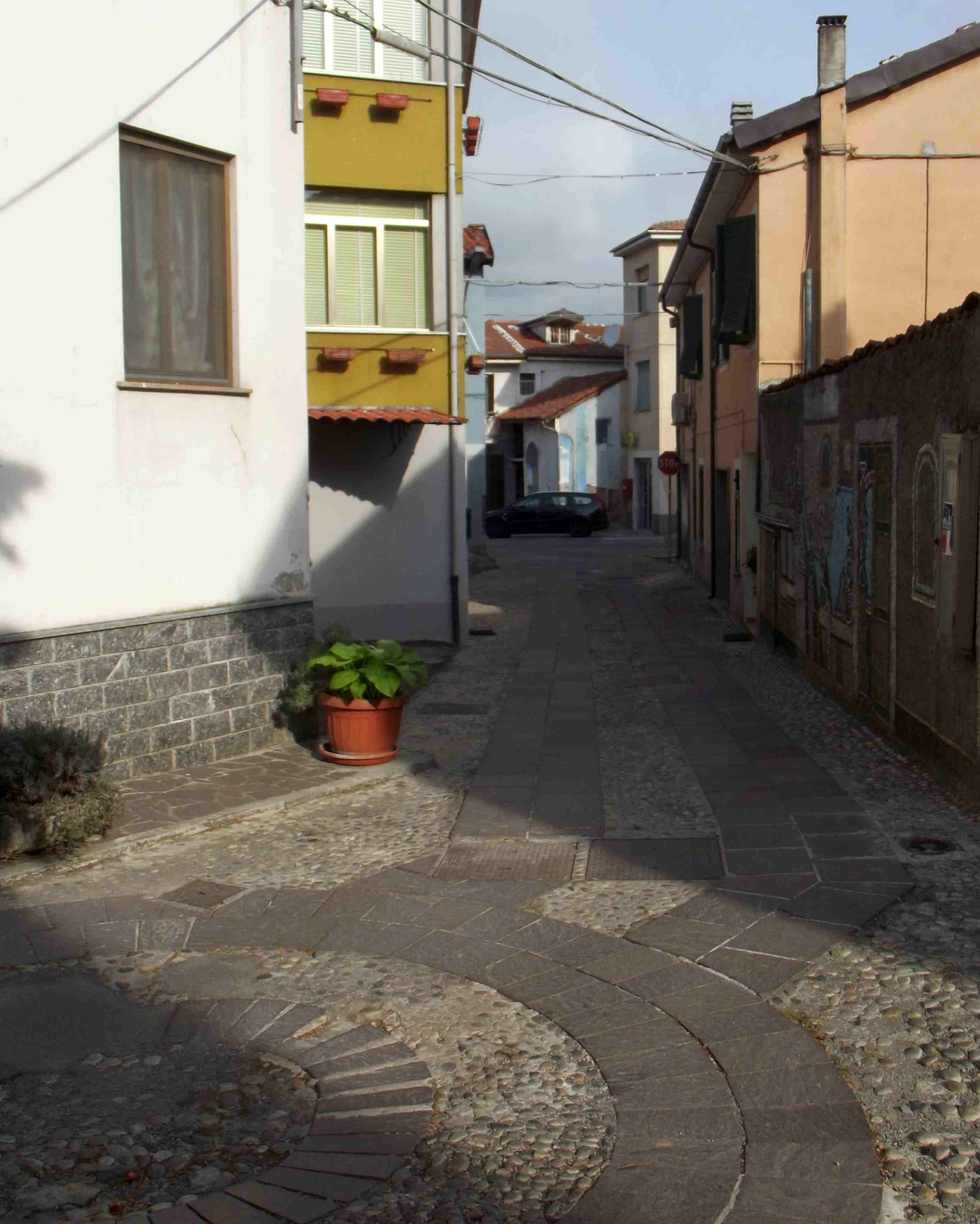 Rocchetta Cairo (Cairo Montenotte, SV, Italy): the old village